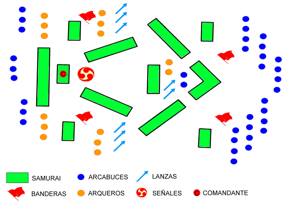 Samurai formation called "hoshi" (arrowhead), used during Azuchi-Momoyama period of japanese history.